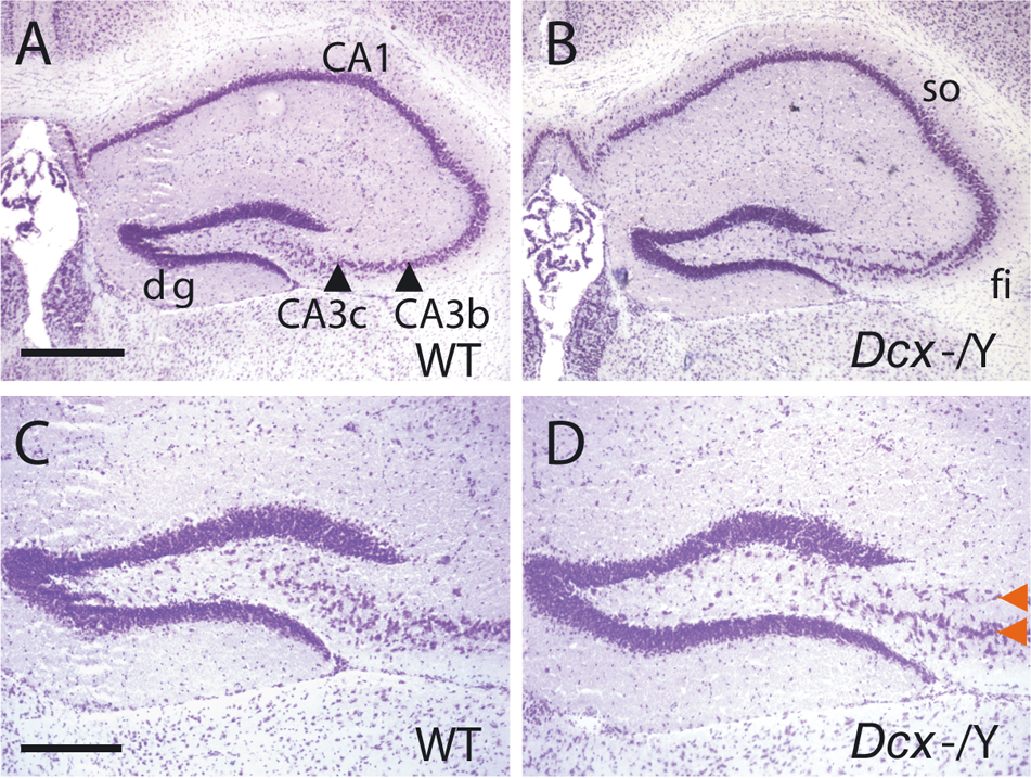 Mouse hippocampi visible with Cresyl violet staining show that while dentate gyri are indistinguishable between the wild type (WT) and knock out (KO) genotypes, the CA3 pyramidal cells show abnormal organization in the KO hippocampus (red arrows in D).